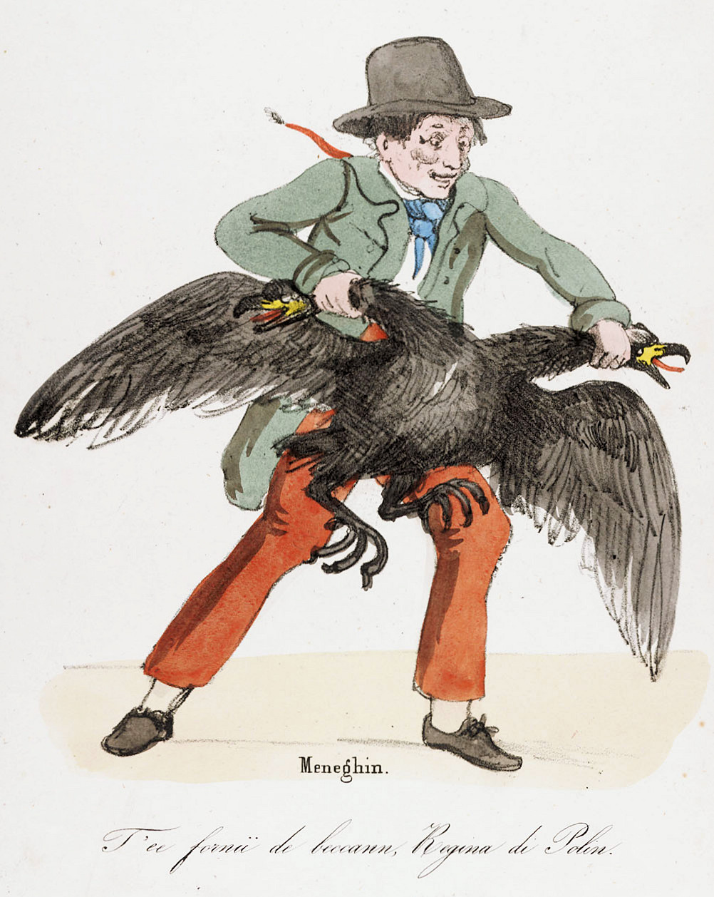 satirical print: Meneghin (i.e. citoyen of Milan) patriot is killing the Austrian aigle after "Cinque giornate"